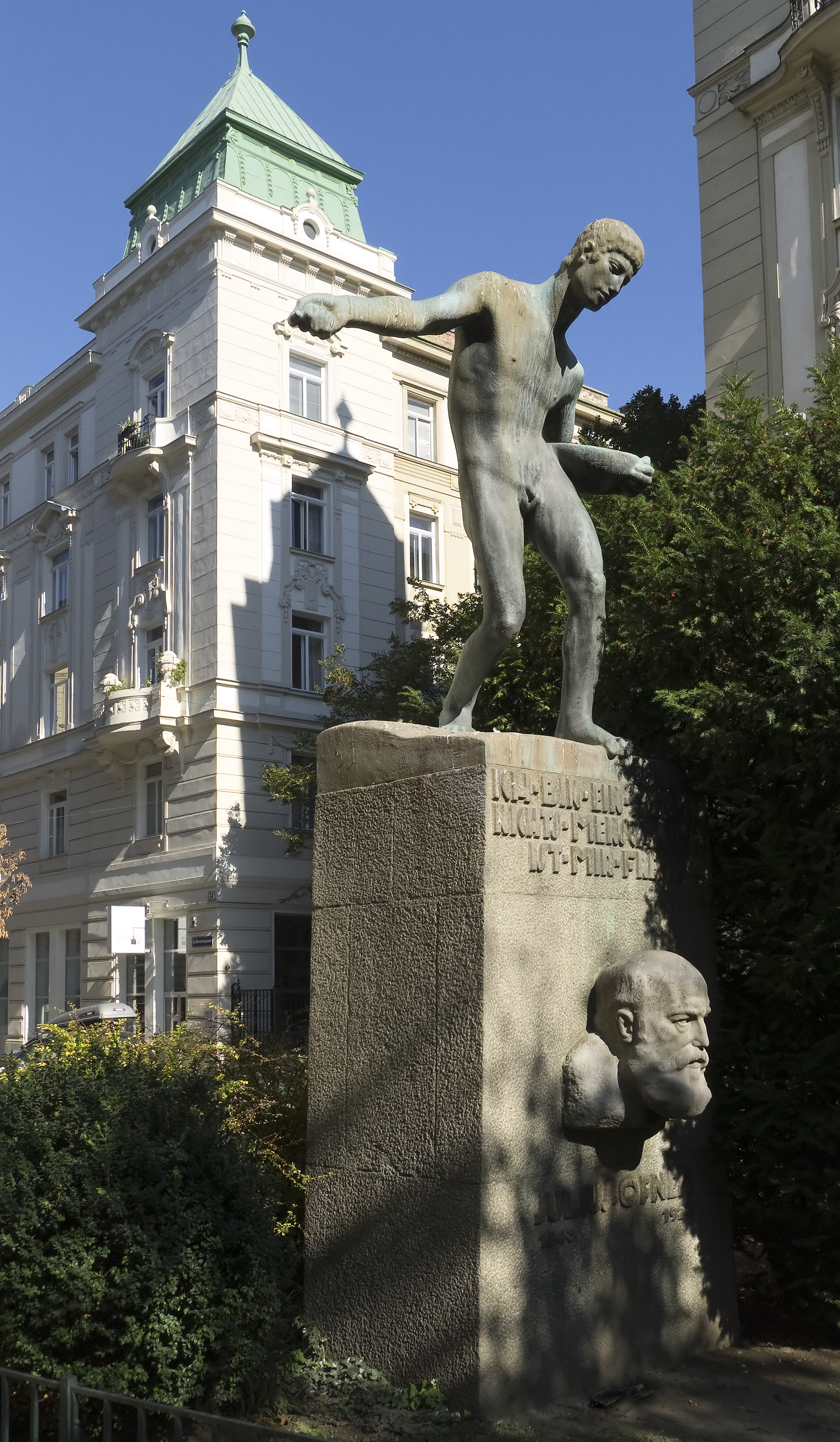 Building Taborstraße 26, Denkmal Julius Ofner, Vienna 2